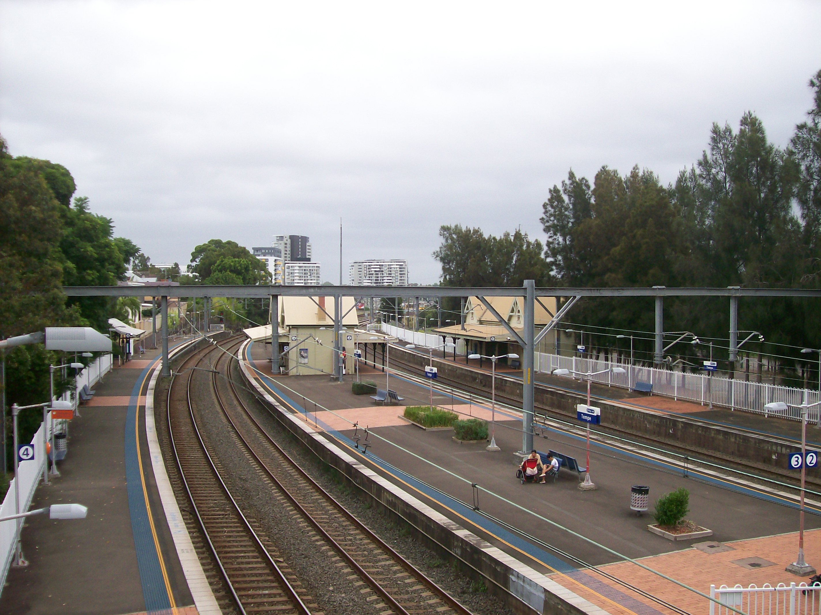 Tempe railway station